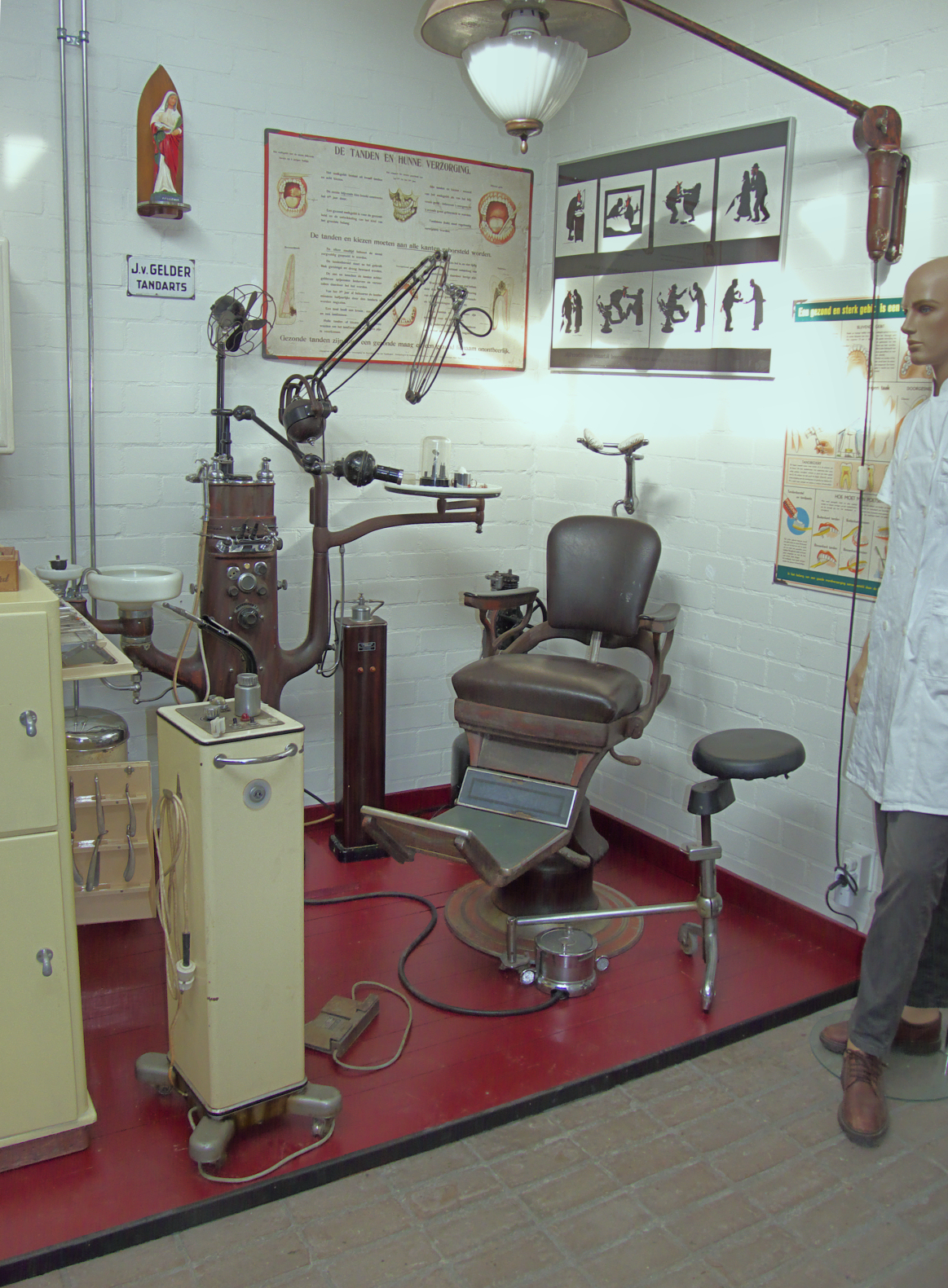 Dentist at work